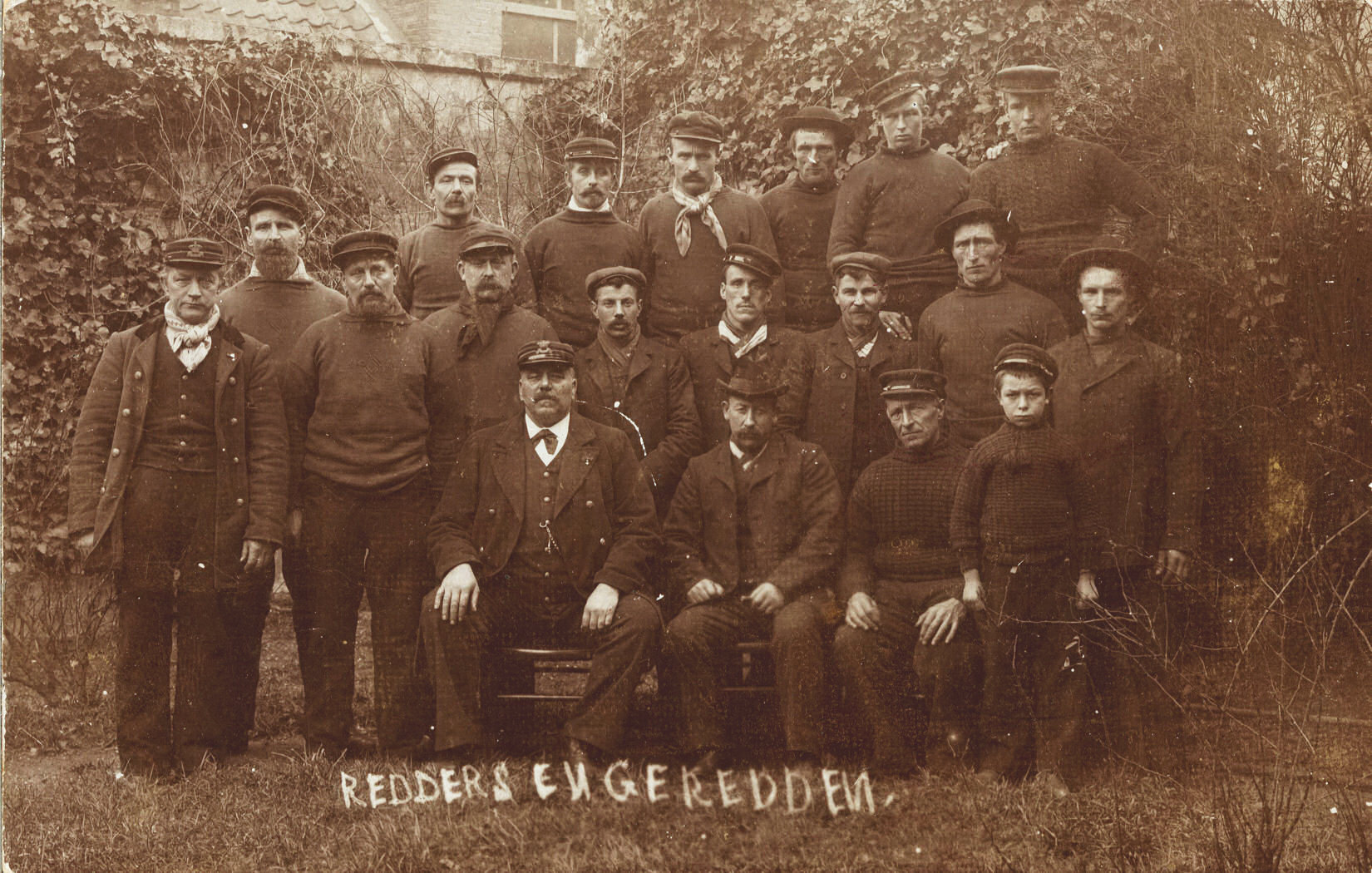 Crew of 'Vijf Gebroeders', the rescue vessel and shipwrecked schooner 'Doris'